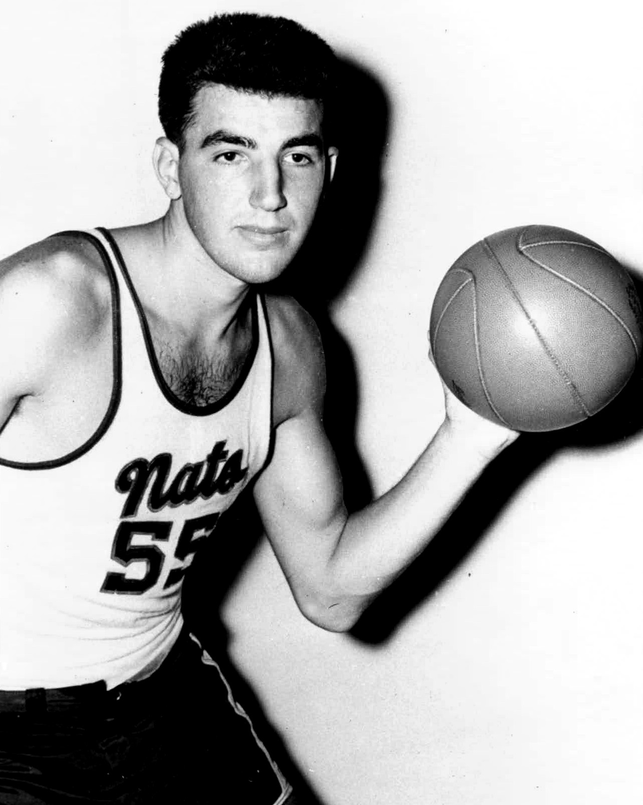 Professional basketball player Dolph Schayes